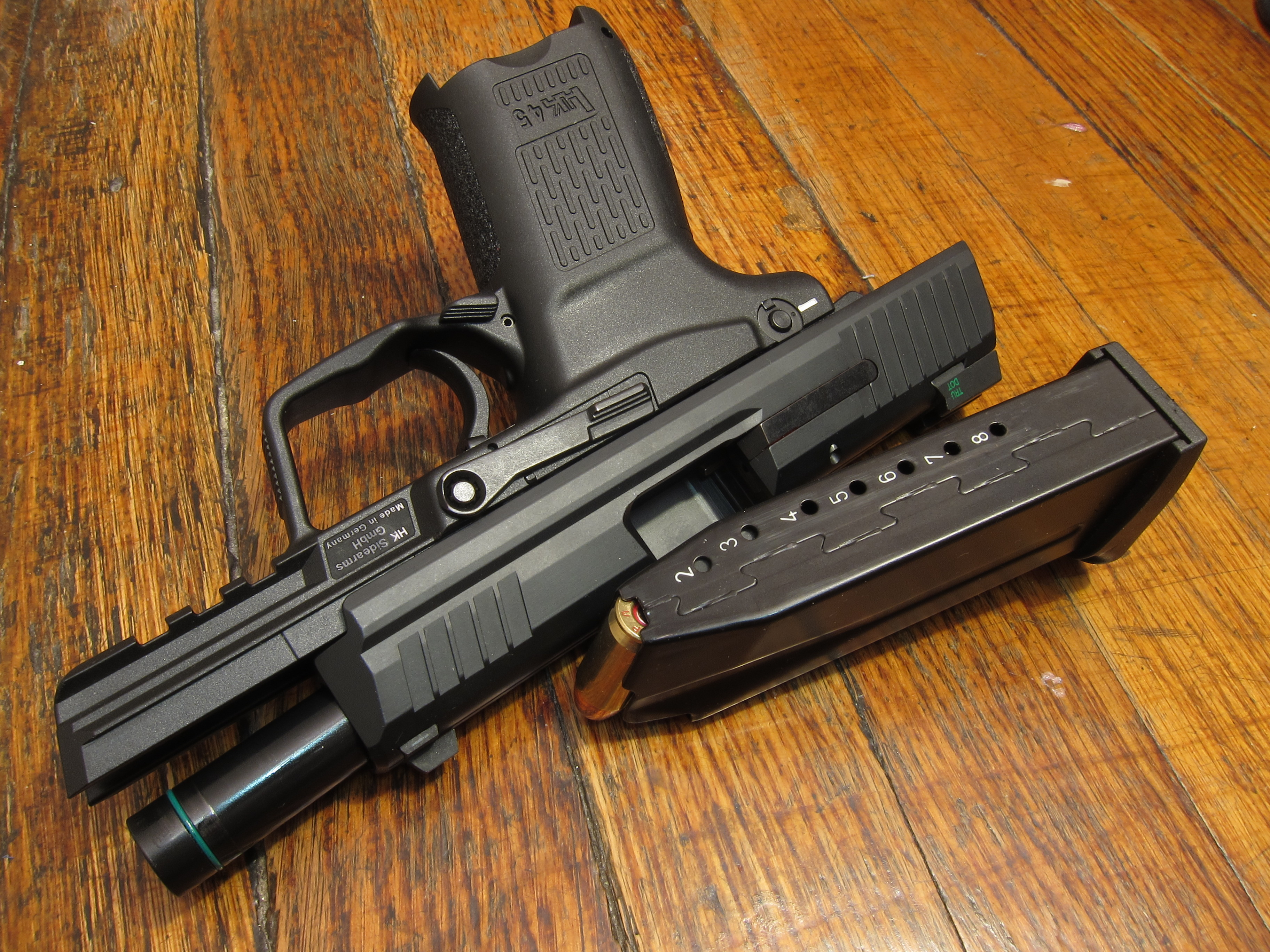 The Heckler & Koch HK45C Compact pistol in .45acp